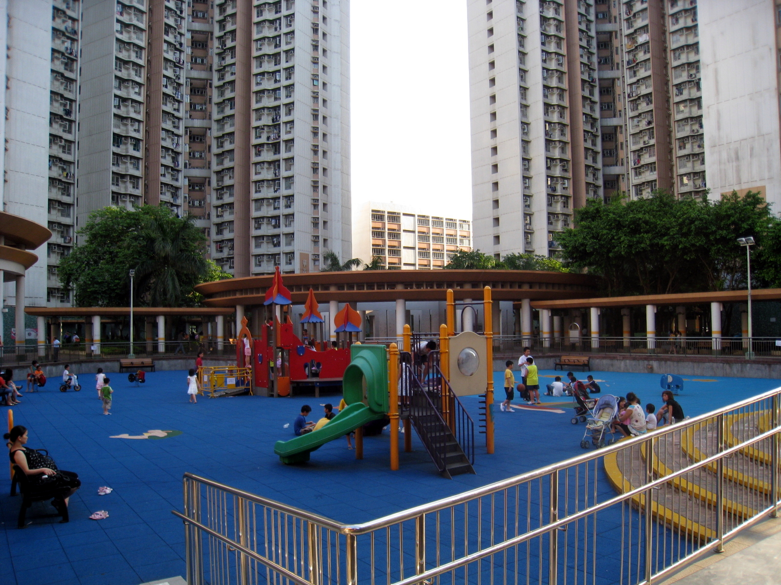 Tin Wah Estate Children Playground 天華邨